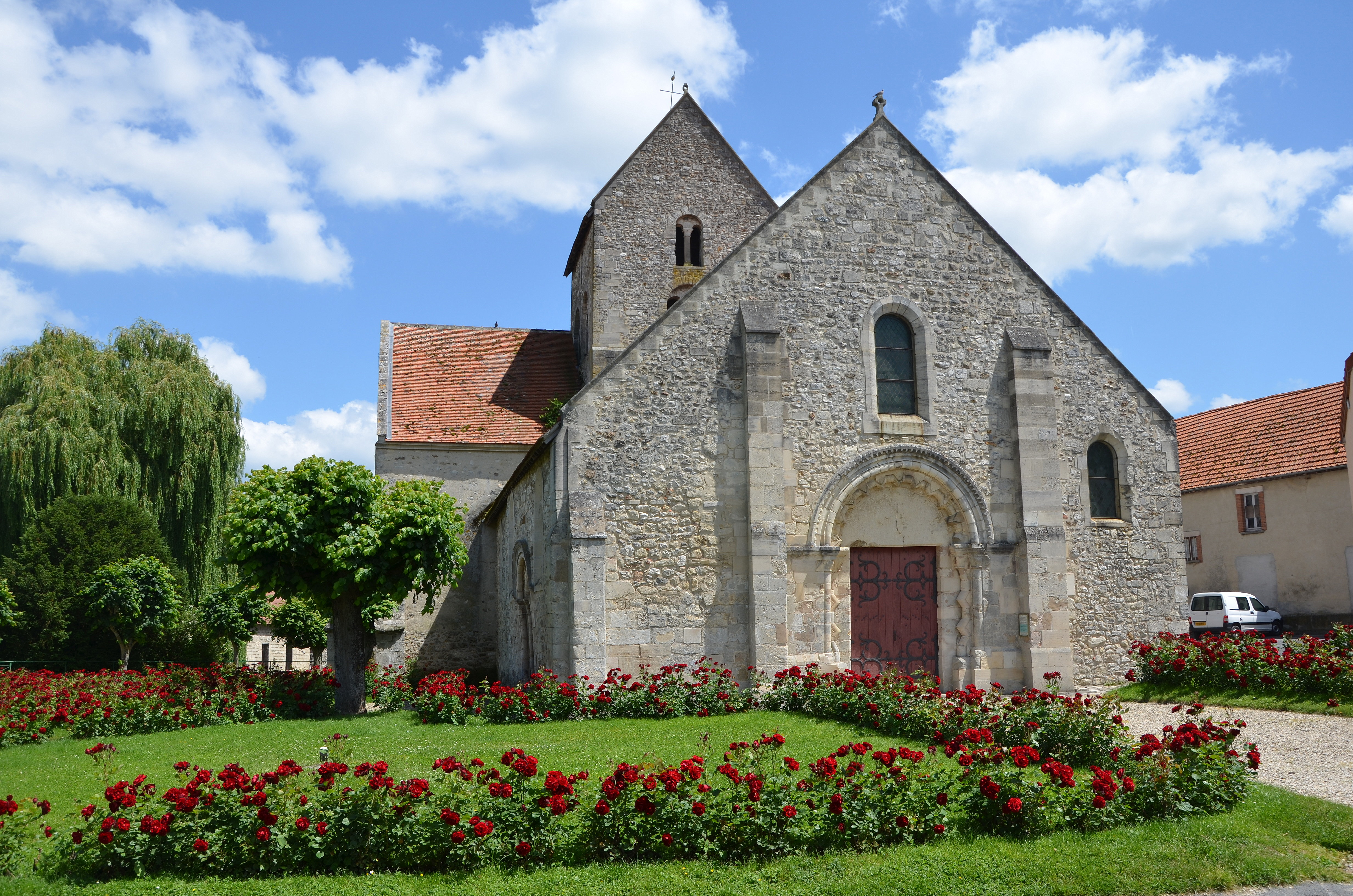 Church of Verneuil, Marne, France